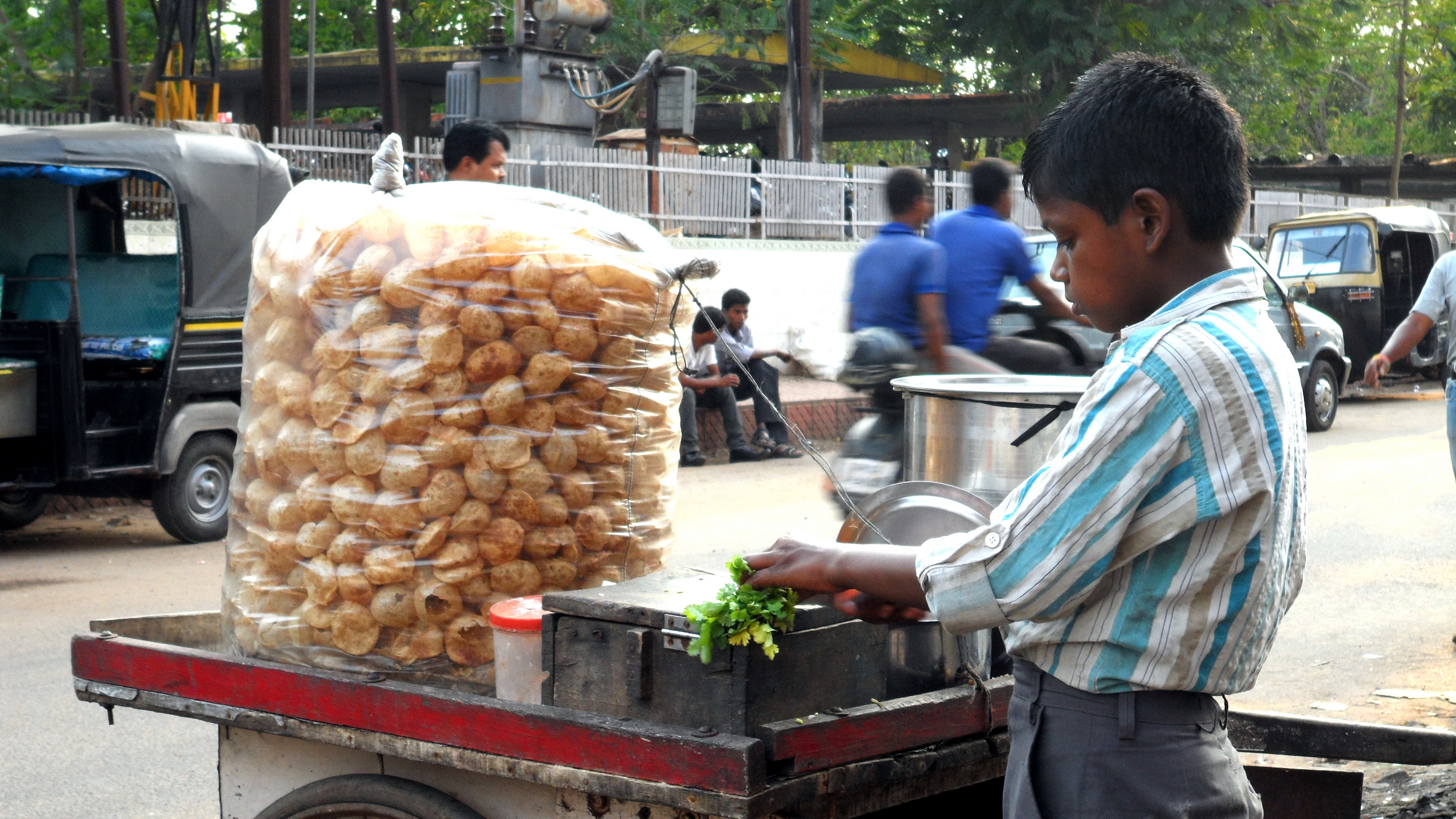 all time favorite !